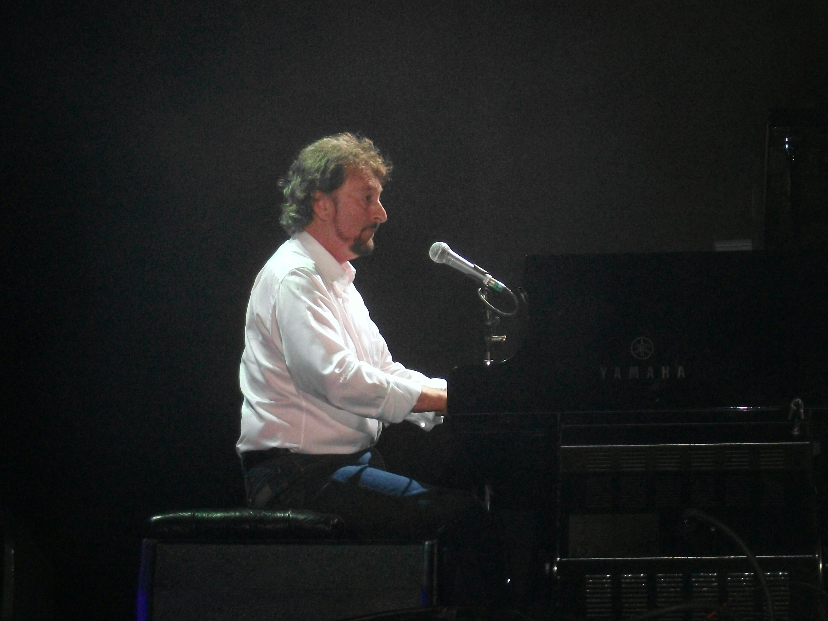 Rick Concert, voice of Supertramp, at BBK Live 2010 in Bilbao, Basque Country, Spain (September 17th, 2010).